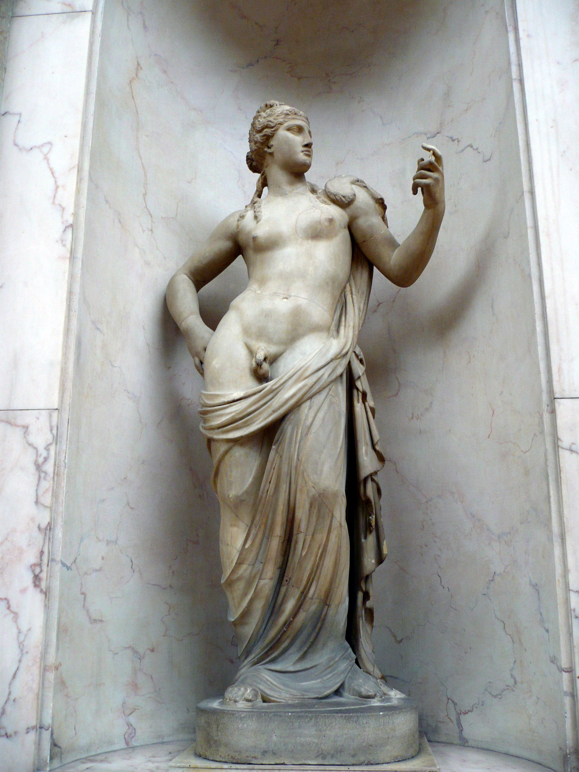 Bacchus in an androgynous form. Roman, Imperial. 2nd century AD